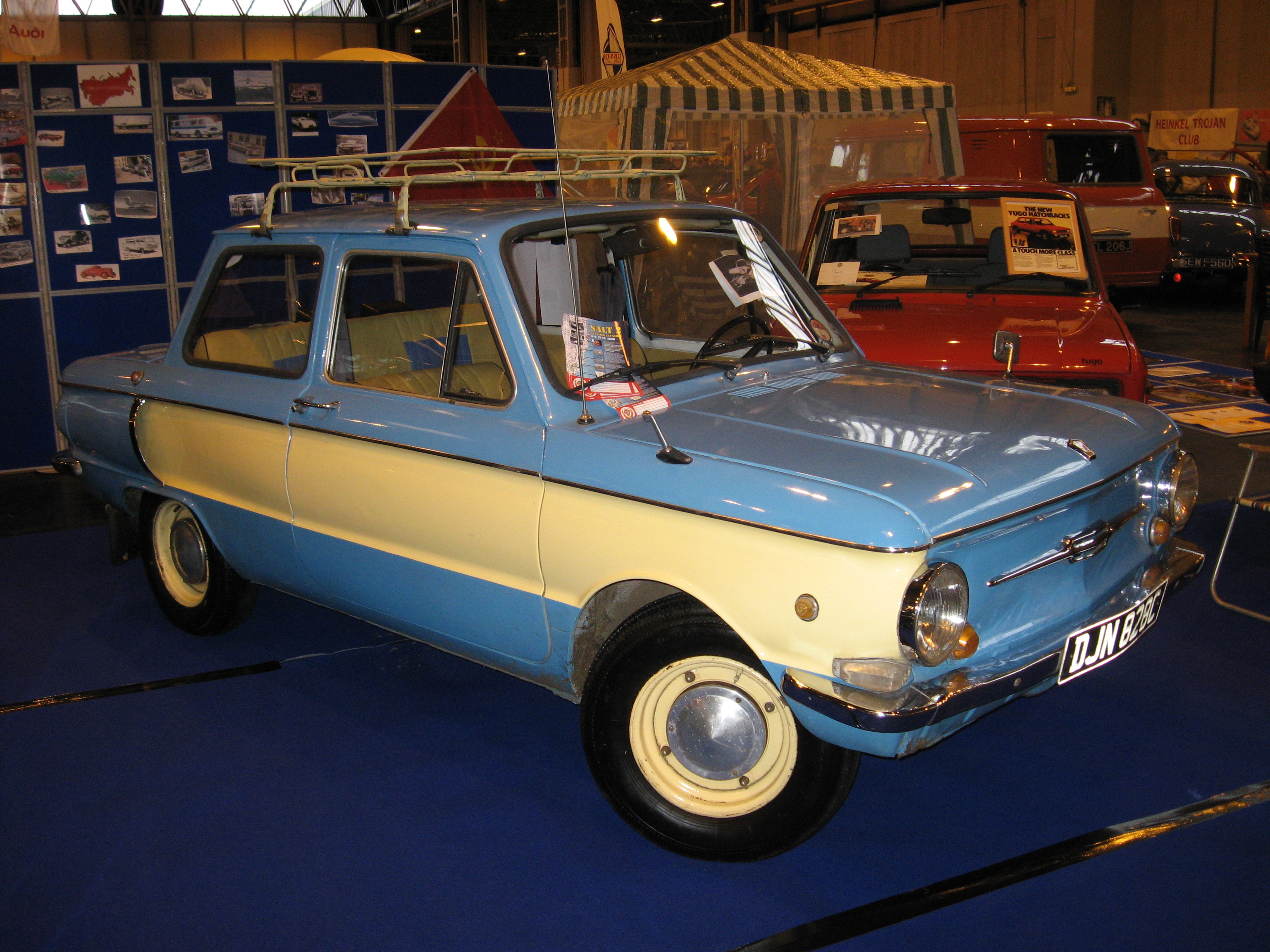 Zaporozhets 968 at NEC Classic Motor Show 2007, Birmingham